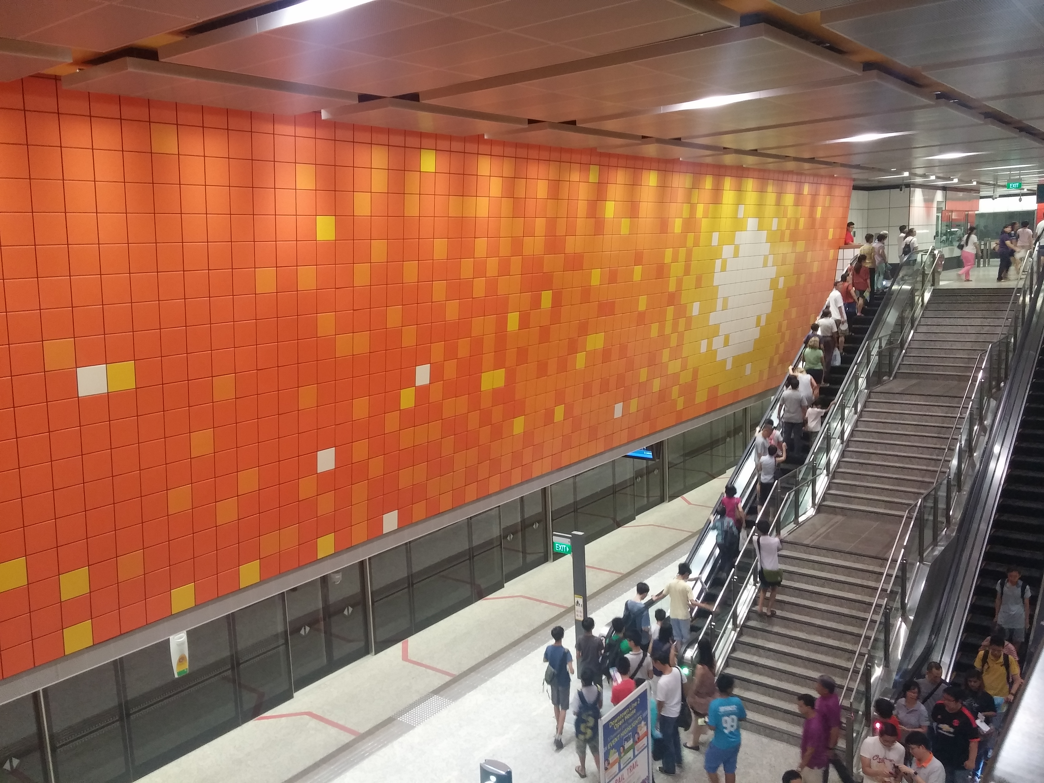 Platform of Tan Kah Kee MRT Station